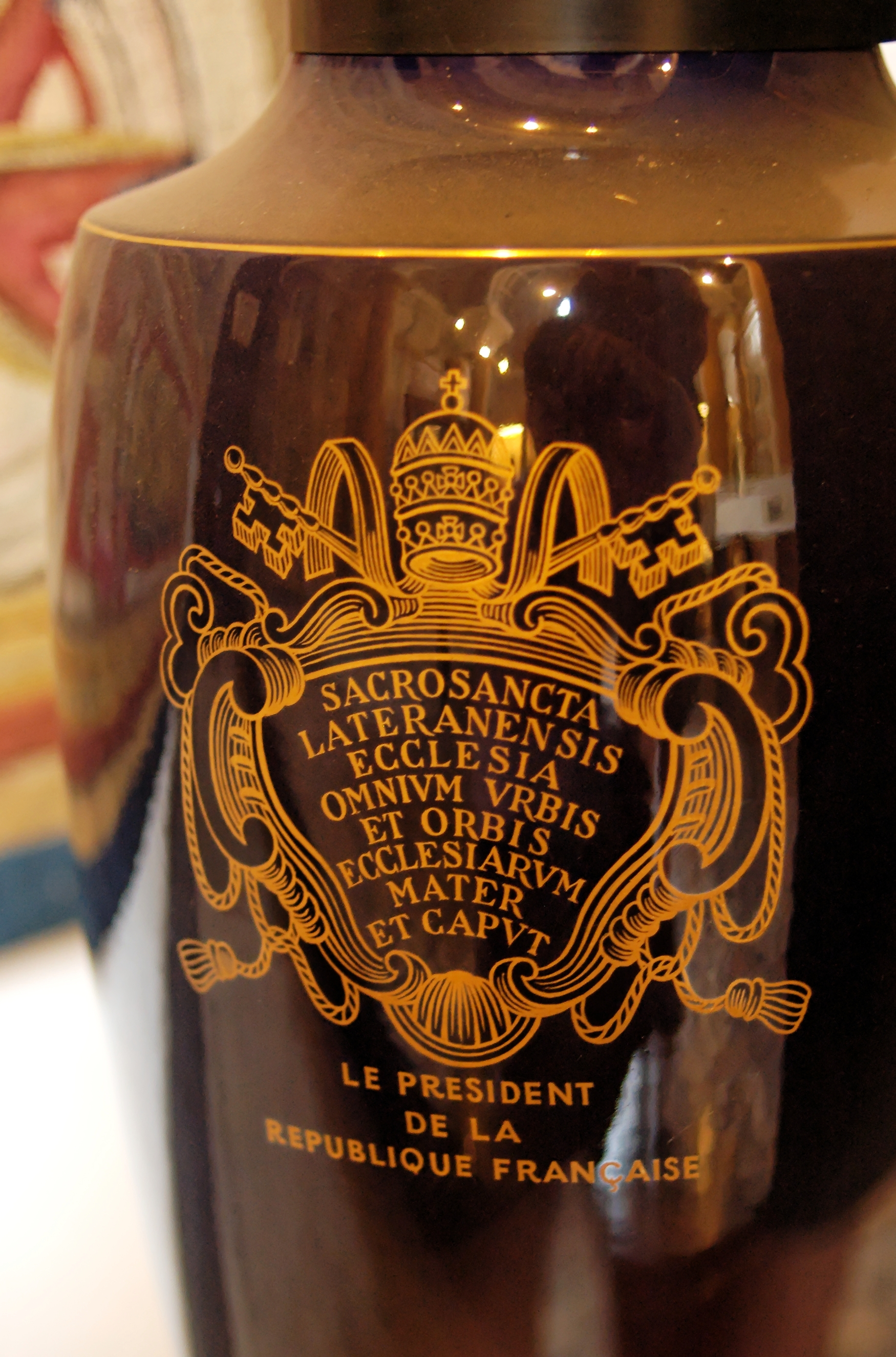 Inscription on a vase of the Manifacture nationale de Sèvres, offered by French president Charles De Gaulle as an honorary canon of St. John Lateran. Museum of the Basilica of St. John Lateran (Rome).